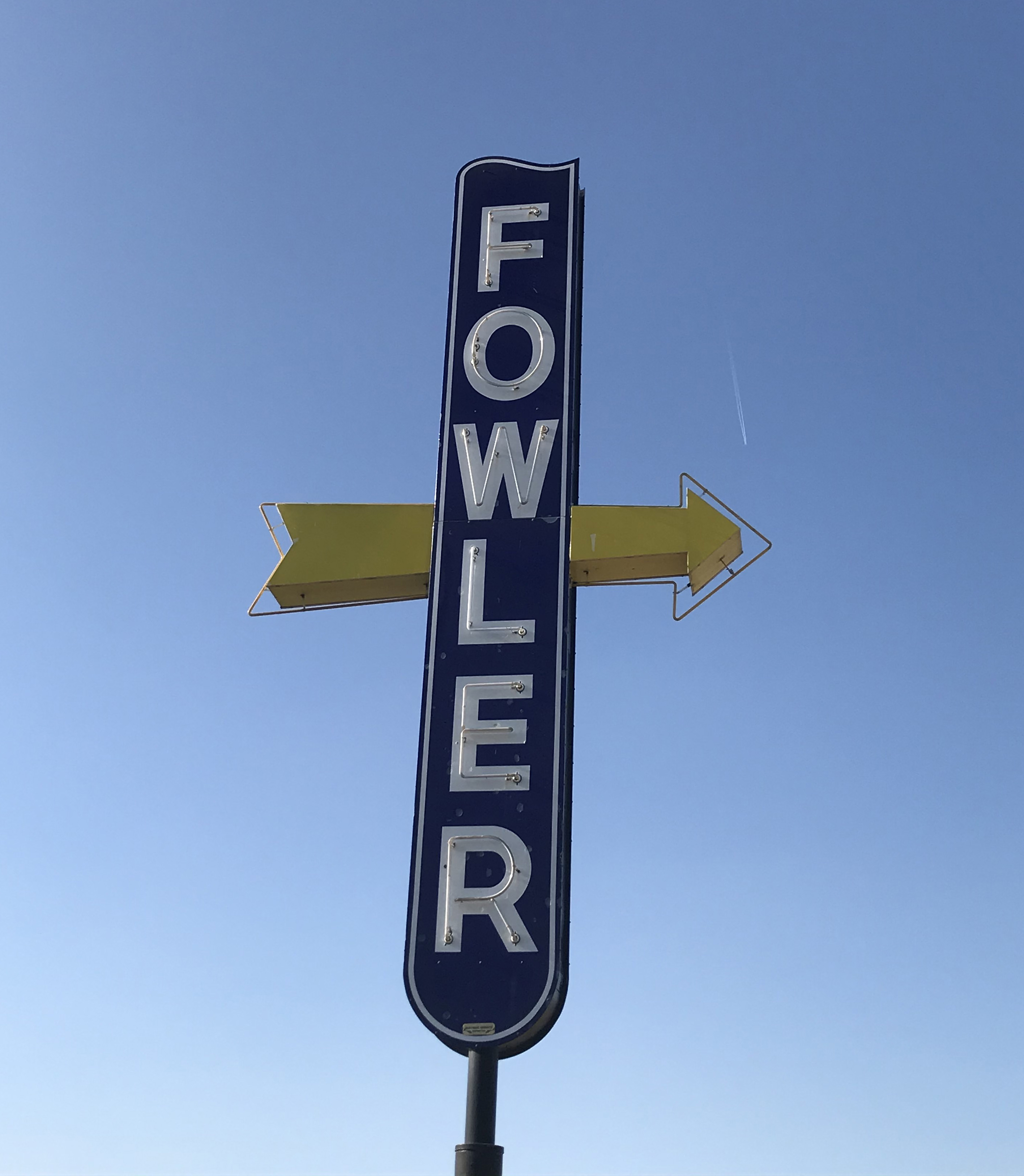 Vintage neon sign at the intersection of Golden State Blvd and E Merced St in Fowler, California.